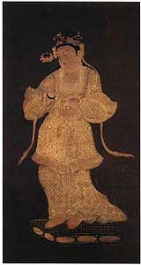 Kenpon choshoku den senchū yūgen kannonzō (絹本著色伝船中湧現観音像). Hanging scroll. Color on silk. Located at Ryūkōin (龍光院), Mt. Kōya, Wakayama, Japan. The scroll has been designated as National Treasure of Japan in the category paintings.